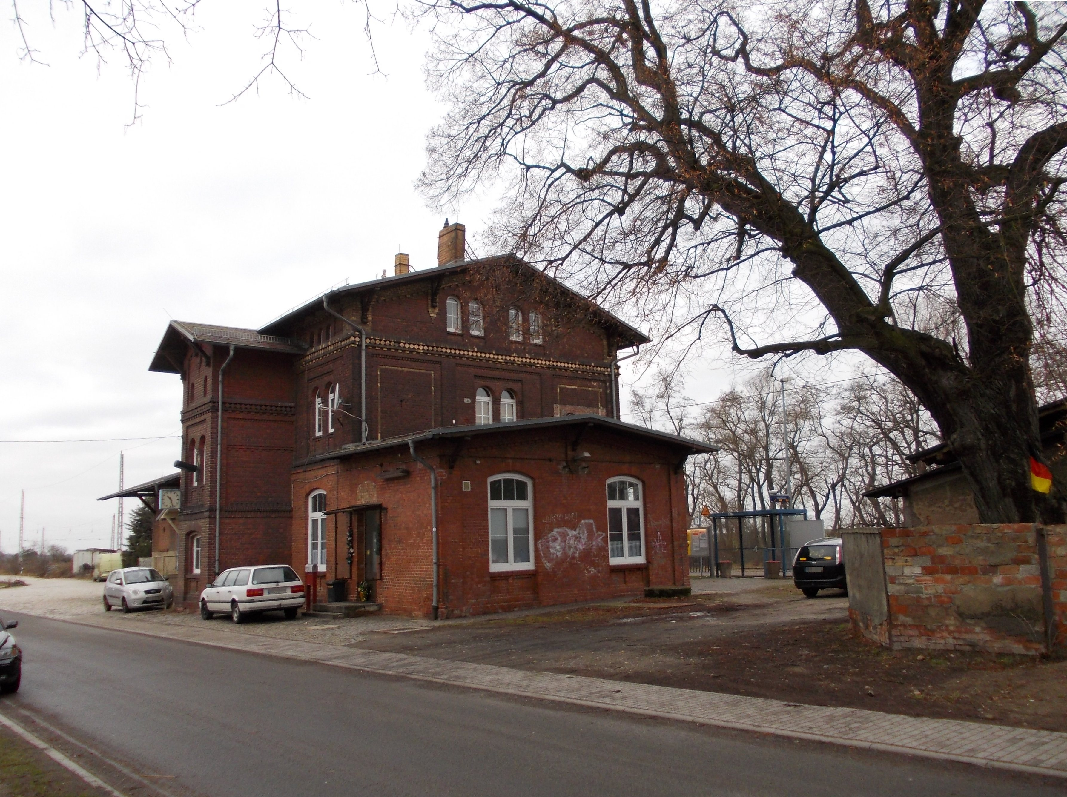 Jesewitz train station (Nordsachsen district, Saxony)